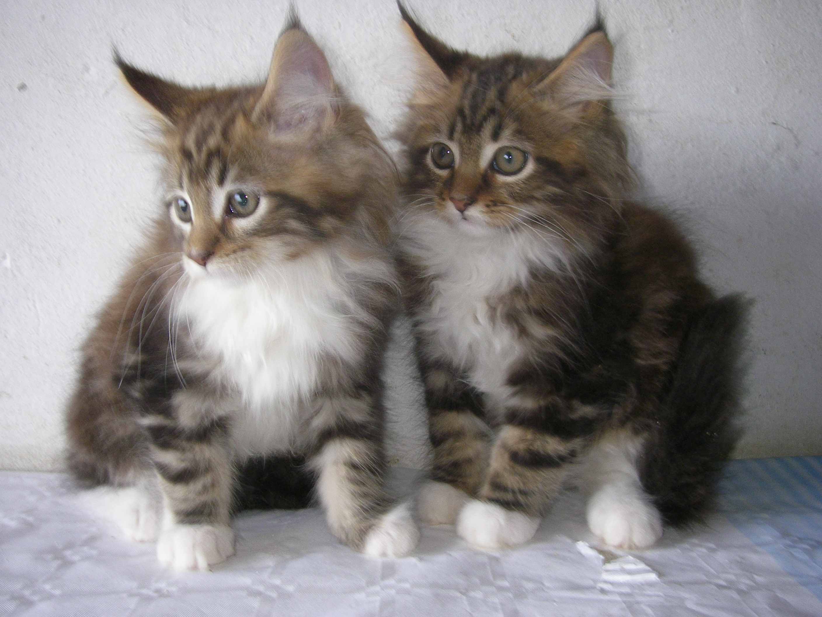 Yuma and Sam, Maine Coon kittens from De Campos, Asturias, Spain.